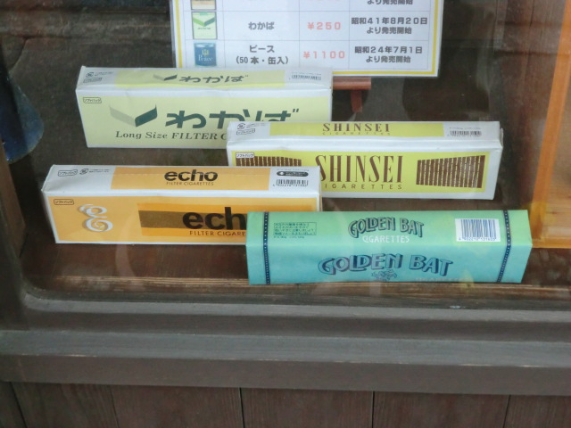 Traditional Tobaccos of Japan. From top to bottom,Wakaba(from 1966),Shinsei(from 1949),echo(from 1968),Golden bat(from 1906)